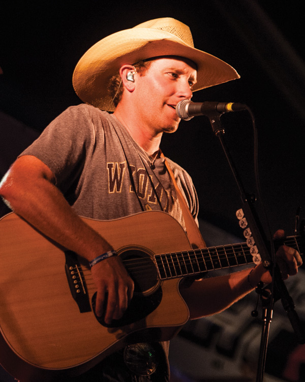 Taken at the Loud American Roadhouse during the 2014 Sturgis Motorcycle Rally.